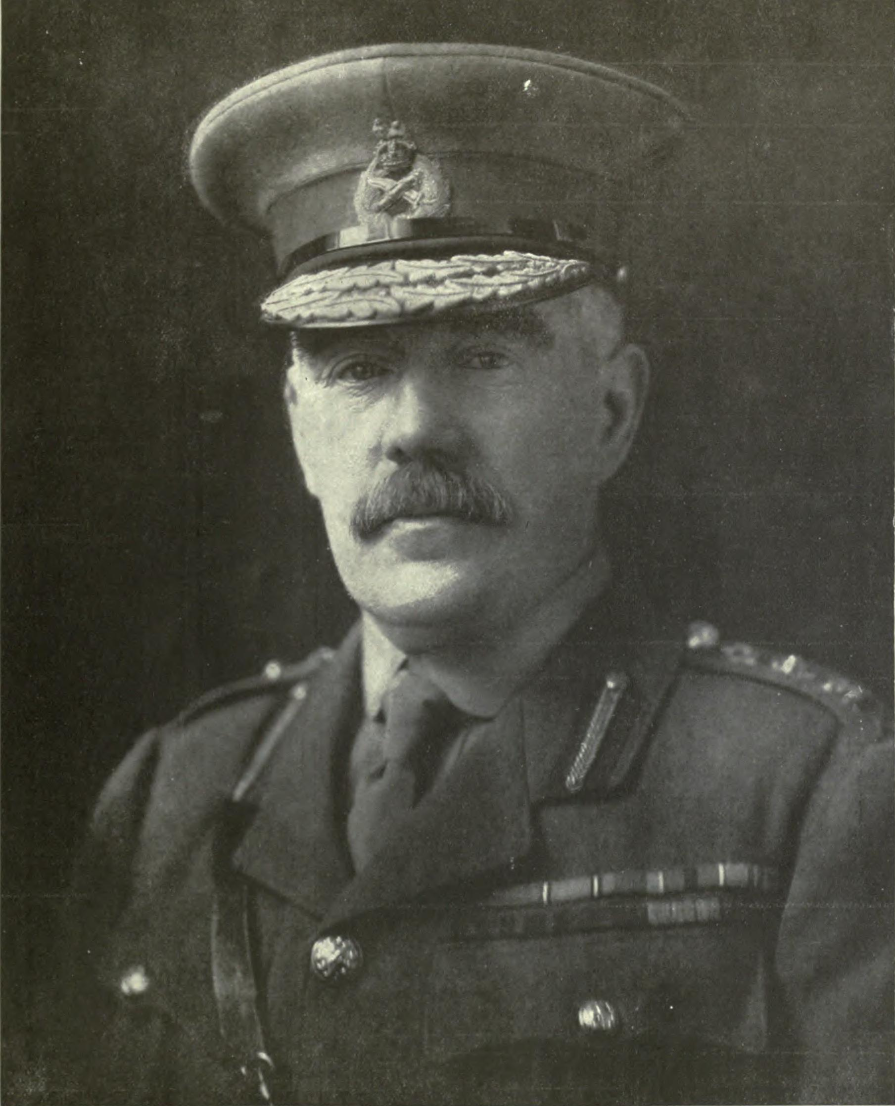 Sir William Robertson, chief of the Imperial General Staff, 1917.